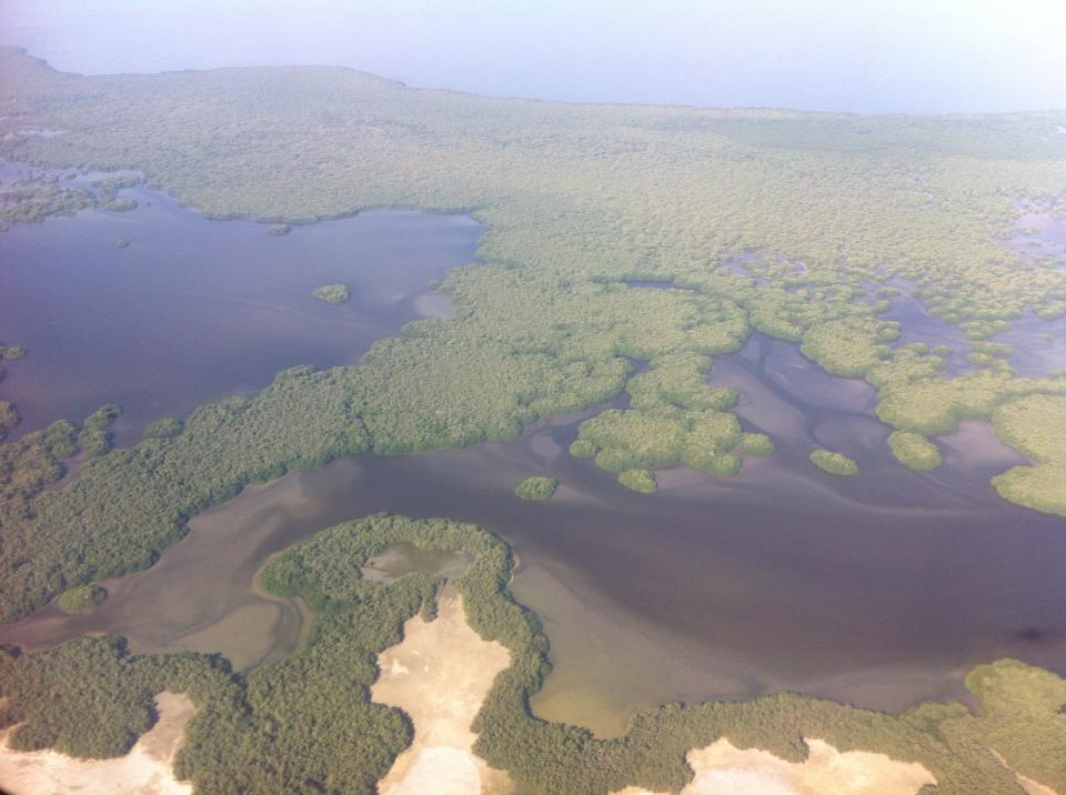 This is an image of the Biosphere Reserve: Ciénaga Grande de Santa Marta